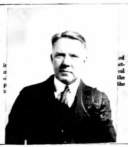 W. C. Fields in his 1919 passport application